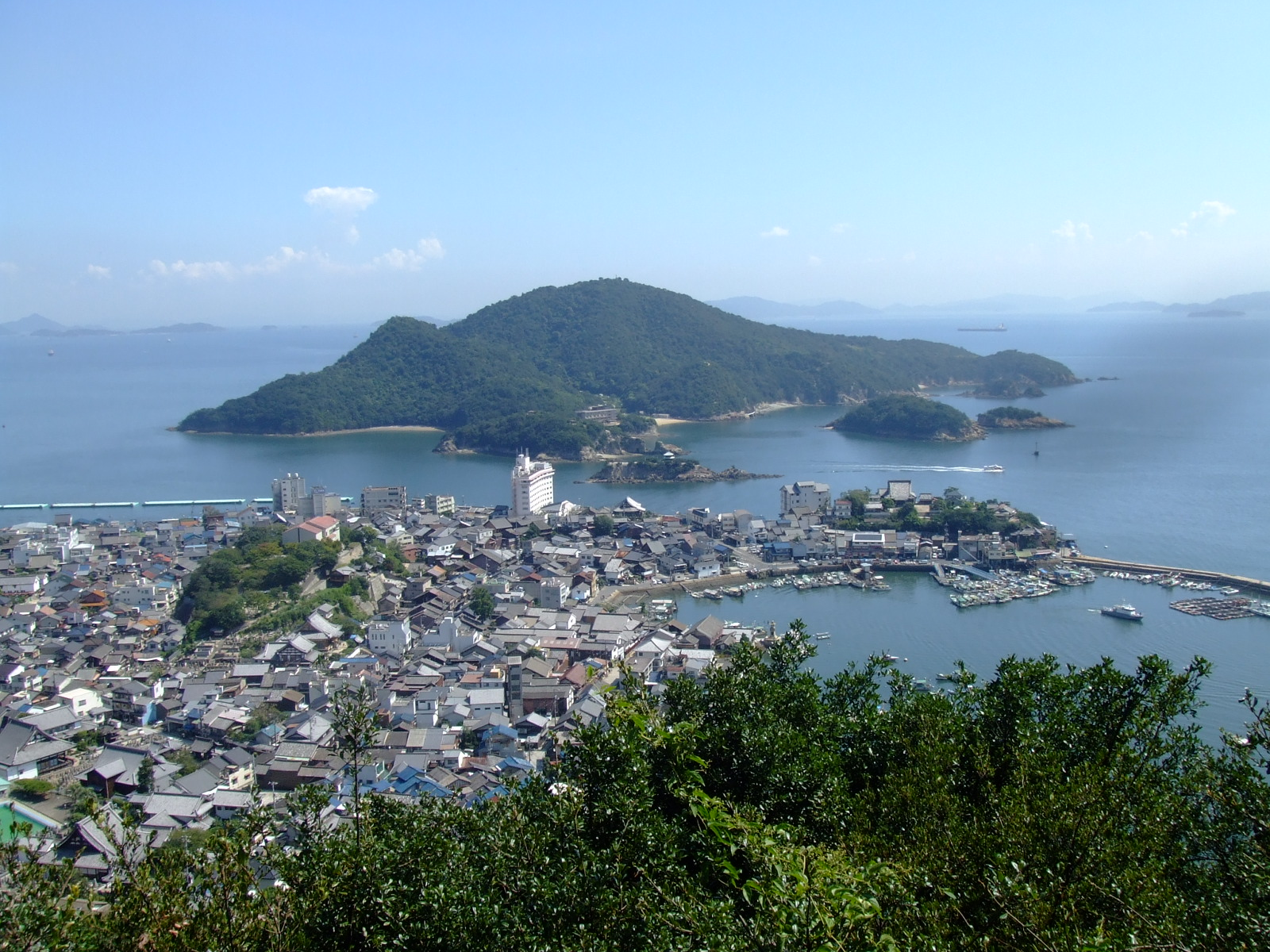 Tomonoura and Sensuijima as seen from the west.